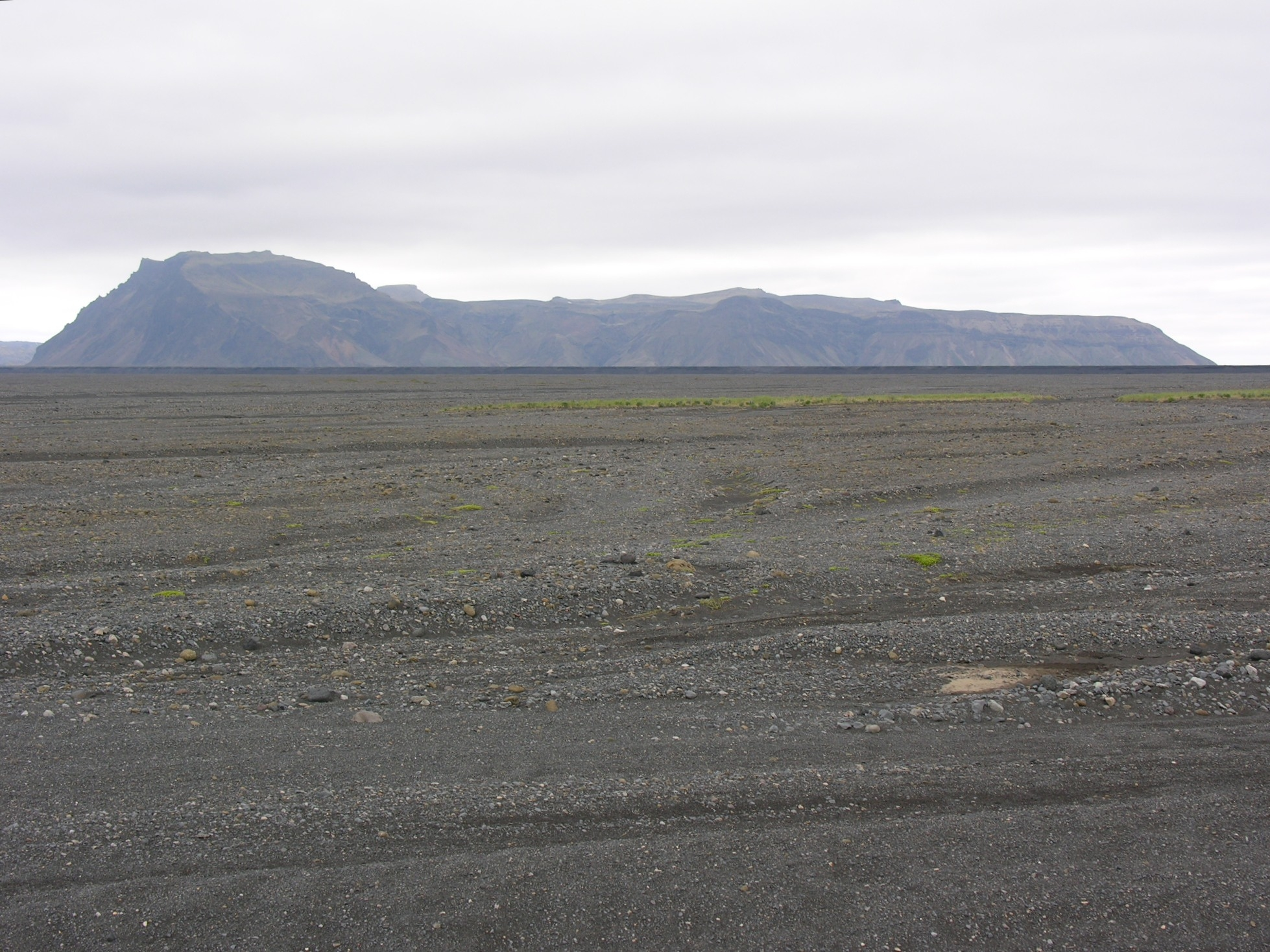 Iceland, views along road Road 1 in Iceland (Hringvegur). Picture is geocoded manually; if someone can contribute to the accuracy, please do so.